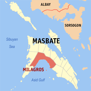 Map of Masbate showing the location of Milagros